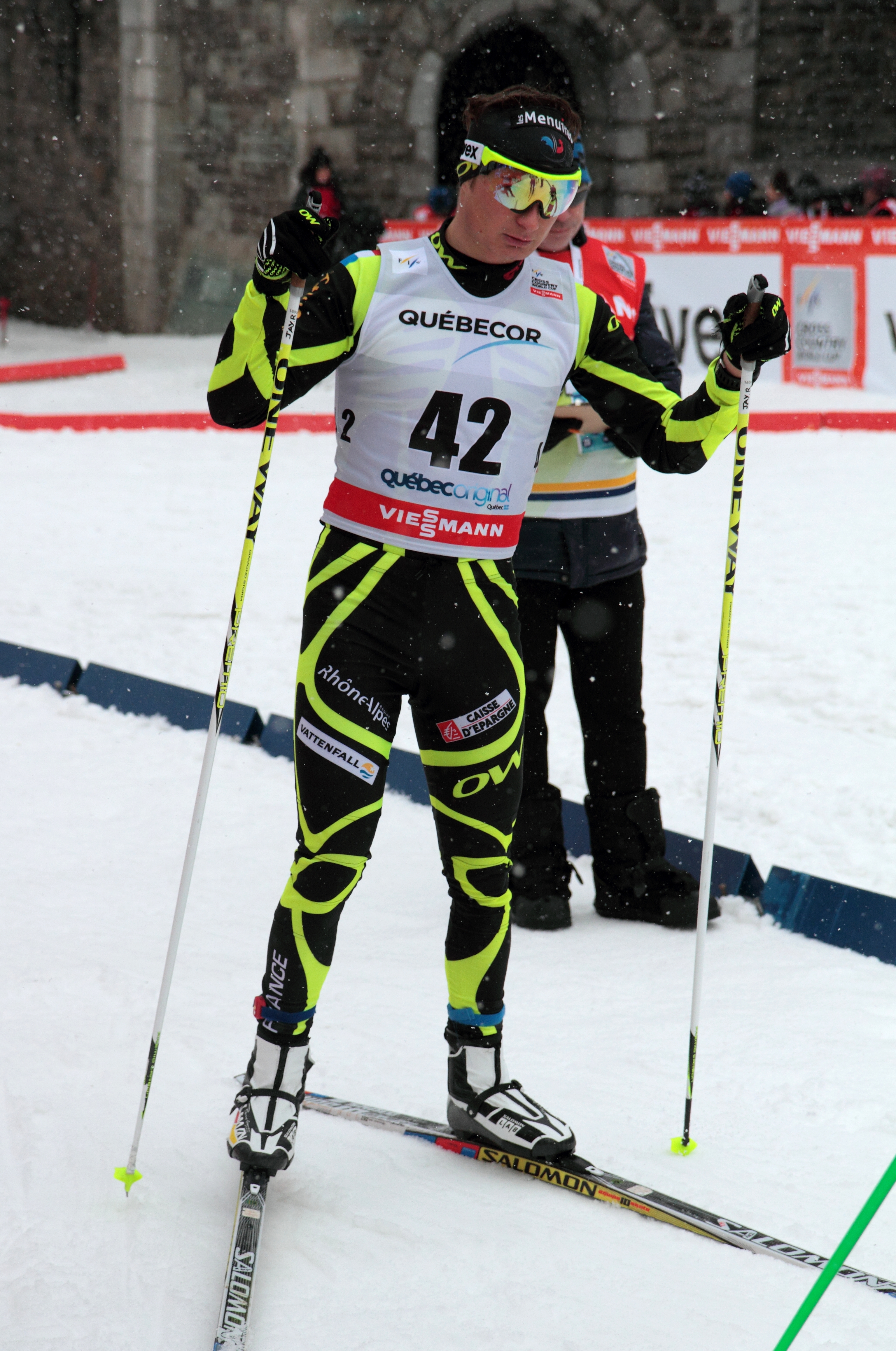 Renaud Jay, FIS Cross-Country World Cup 2012, Quebec, Canada.